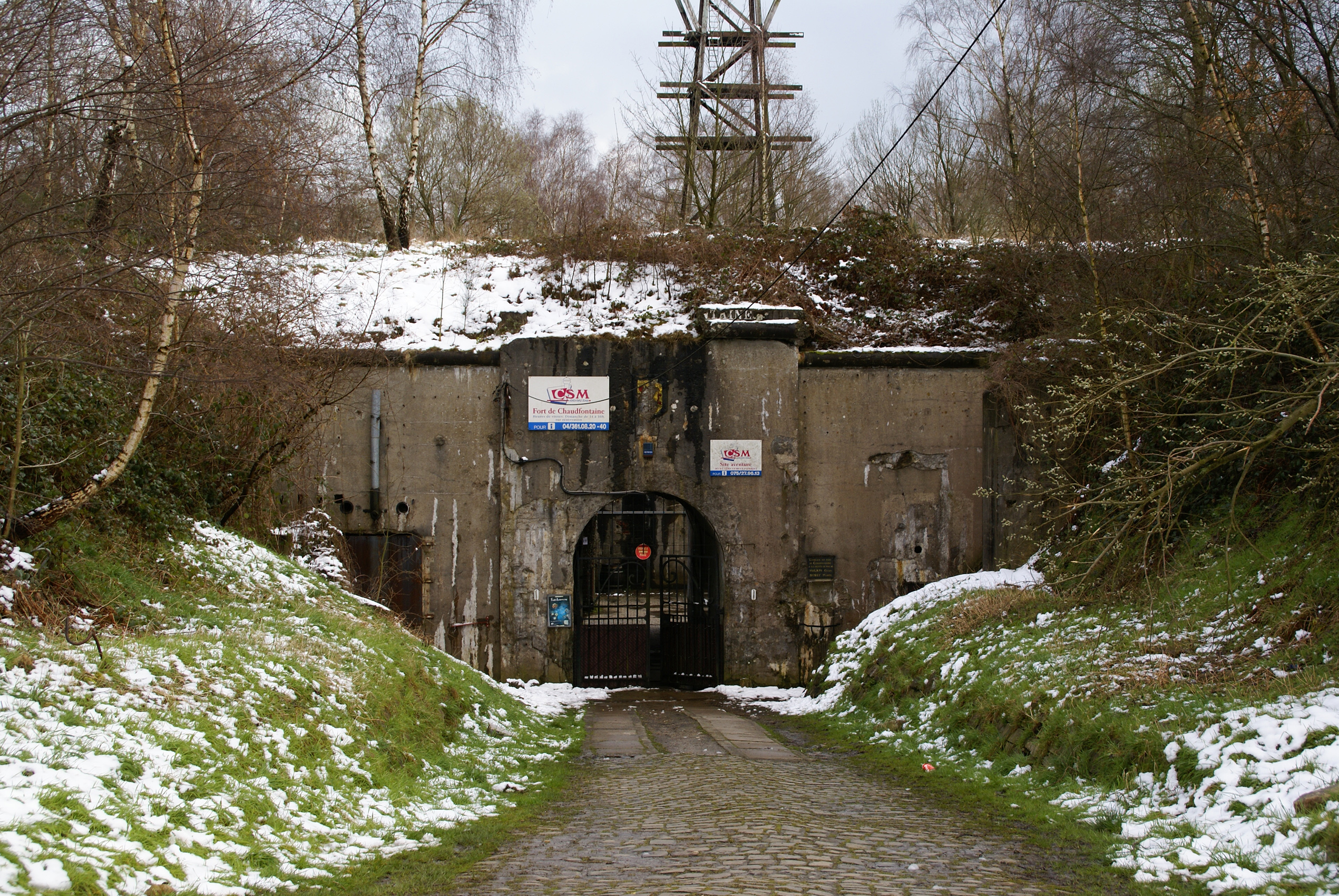 Chaudfontaine (Belgium) Entry to the Fort Entrada de la fortificació Entrée du fort ingang van het fort